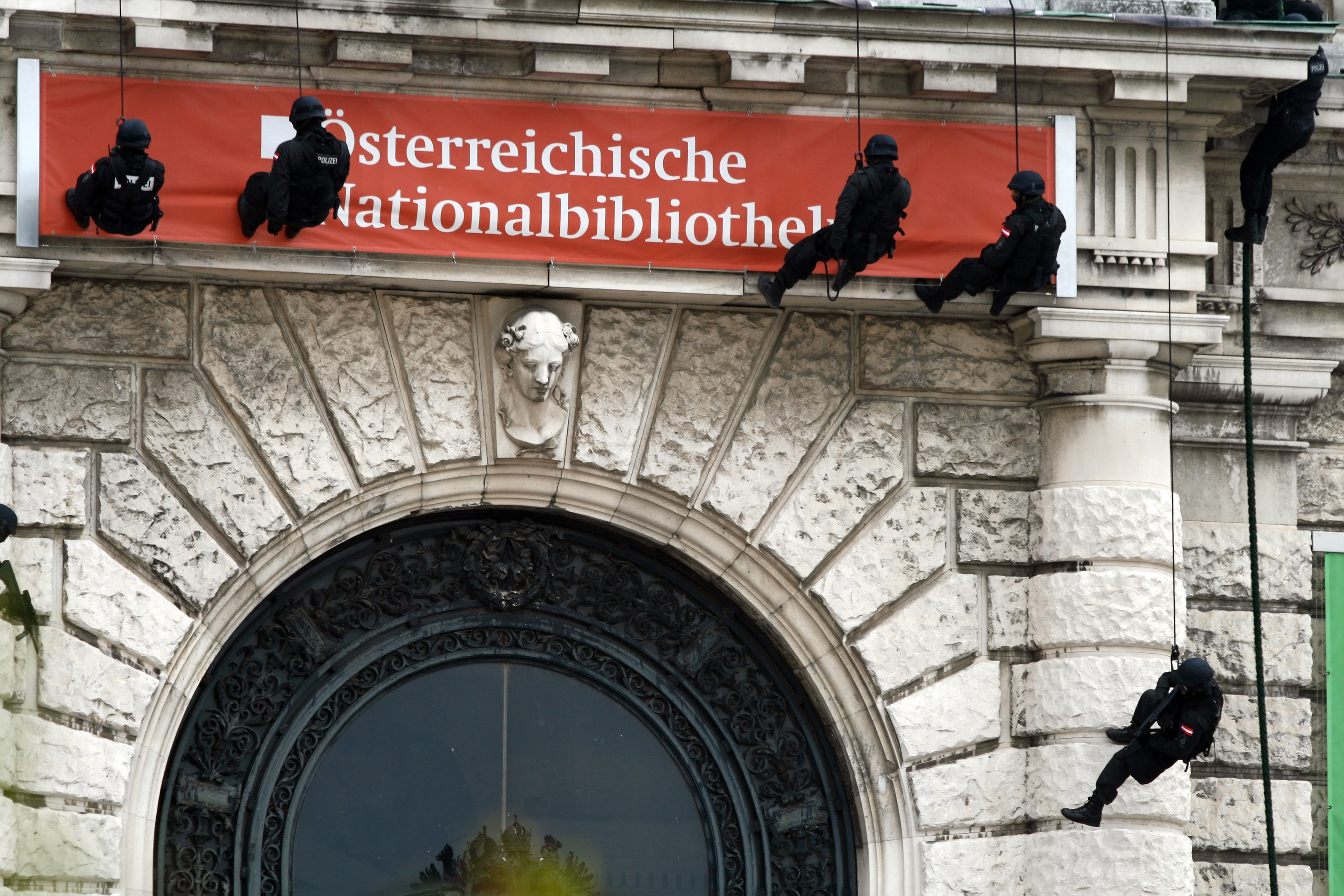 Public demonstration of the EKO Cobra during the Day of Sports on Heldenplatz in Vienna (Hofburg Palace/Austrian National Library).